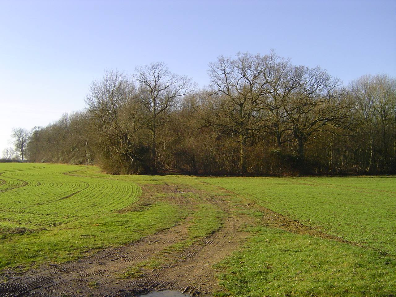 Frithy Wood - viewed from Donkey Lane